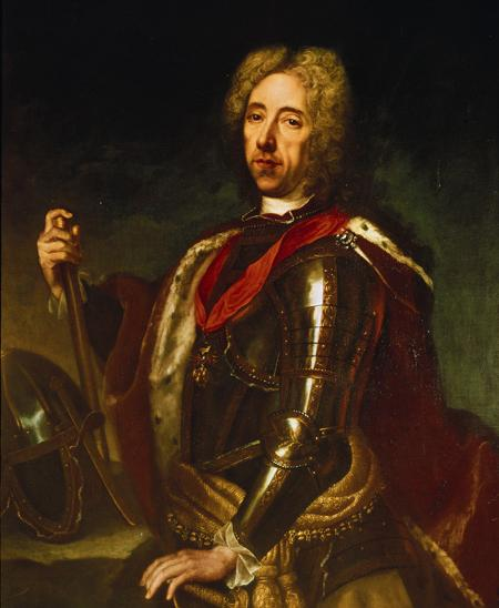 Portrait of Prince Eugene of Savoy (1663-1736)